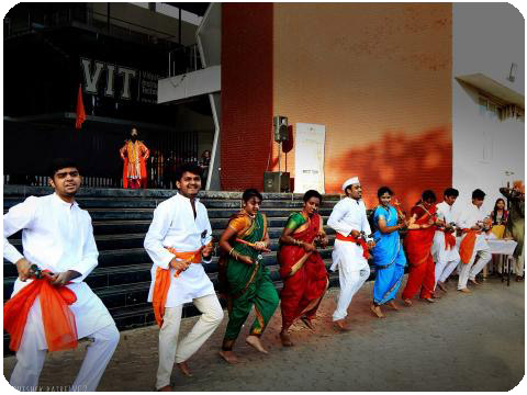 Marathi Divas at VIT